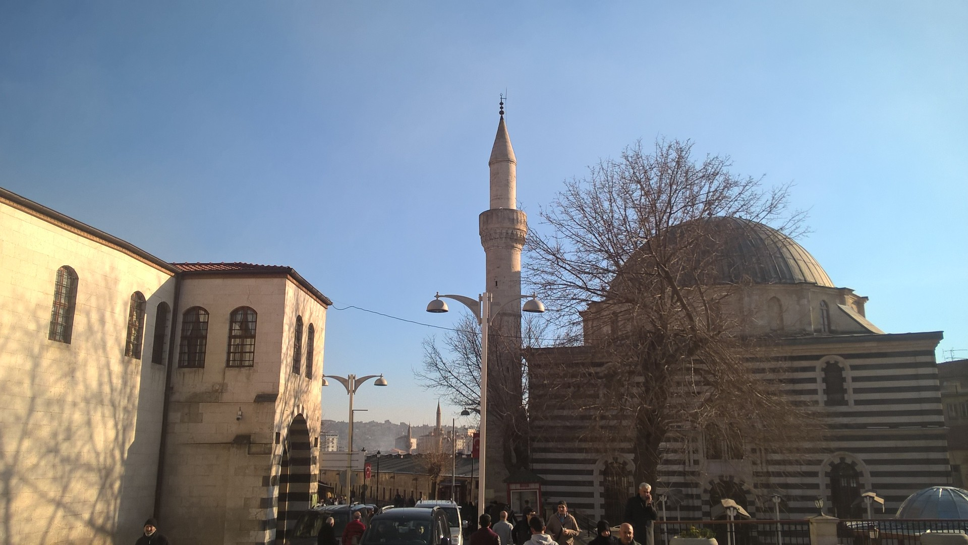 Mosque built by Bozkurt of Dulkadir in Gaziantep.